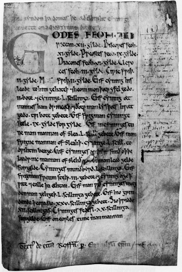 First page of the Textus Roffensis. From Rochester Cathedral Library, MS A.3.5; now kept in Strood at Medway Archives (DRc/R1). Scanned from The Anglo-Saxons, ed. James Campbell, 1990, Penguin Books, p. 53.